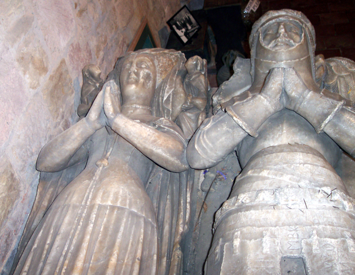 Tomb effigies of Margaret Peverel & Robert de Ferrieres (de Ferrers), Earl of Derby, 12th century in the parish and abbey church of Our Lady, Merevale, Warwickshire, England